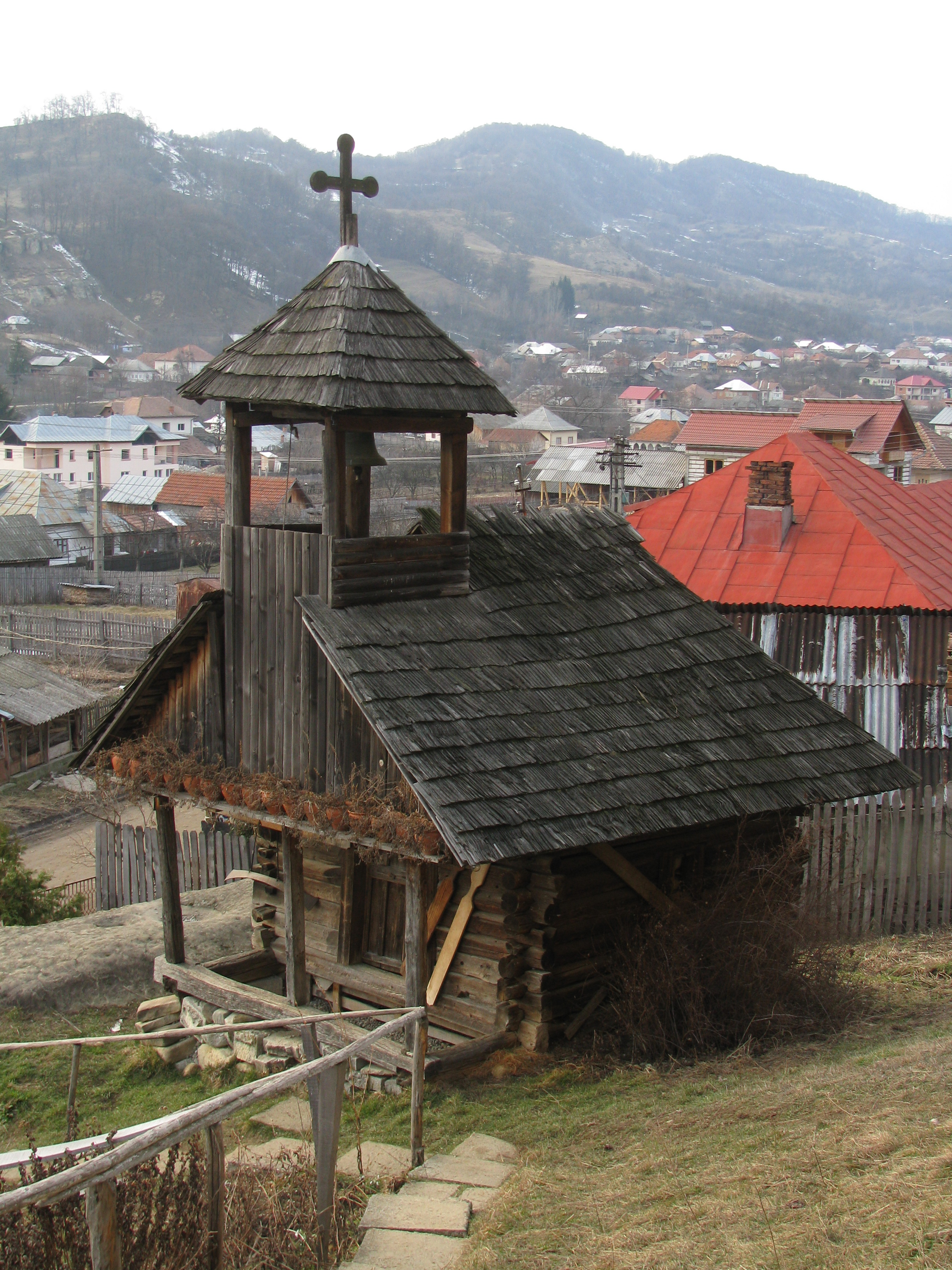 Wooden church from Jgheaburi village, Corbi commune, Argeș county, Romania